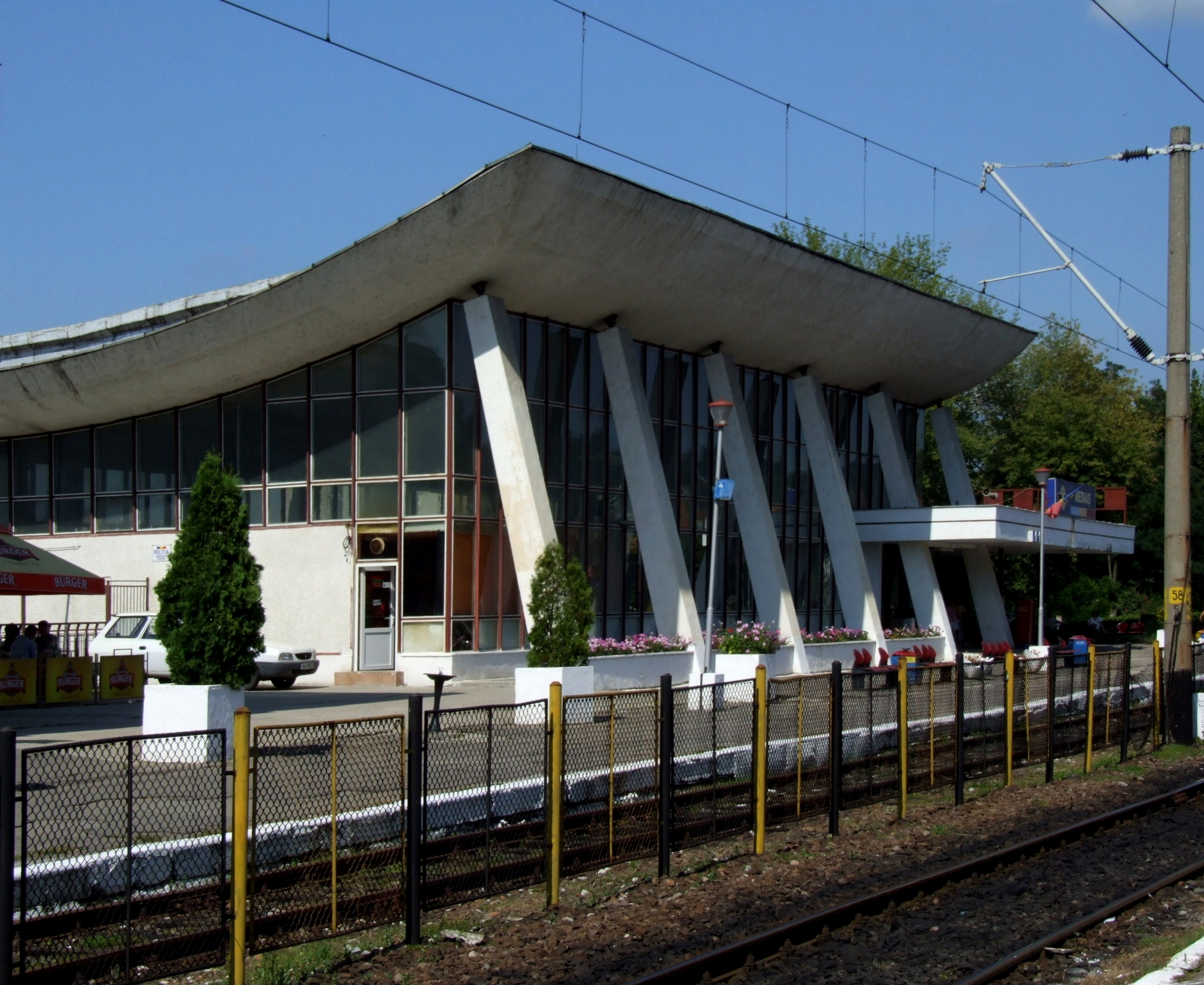 Train station in Mediaş (Mediasch, Medgyes)